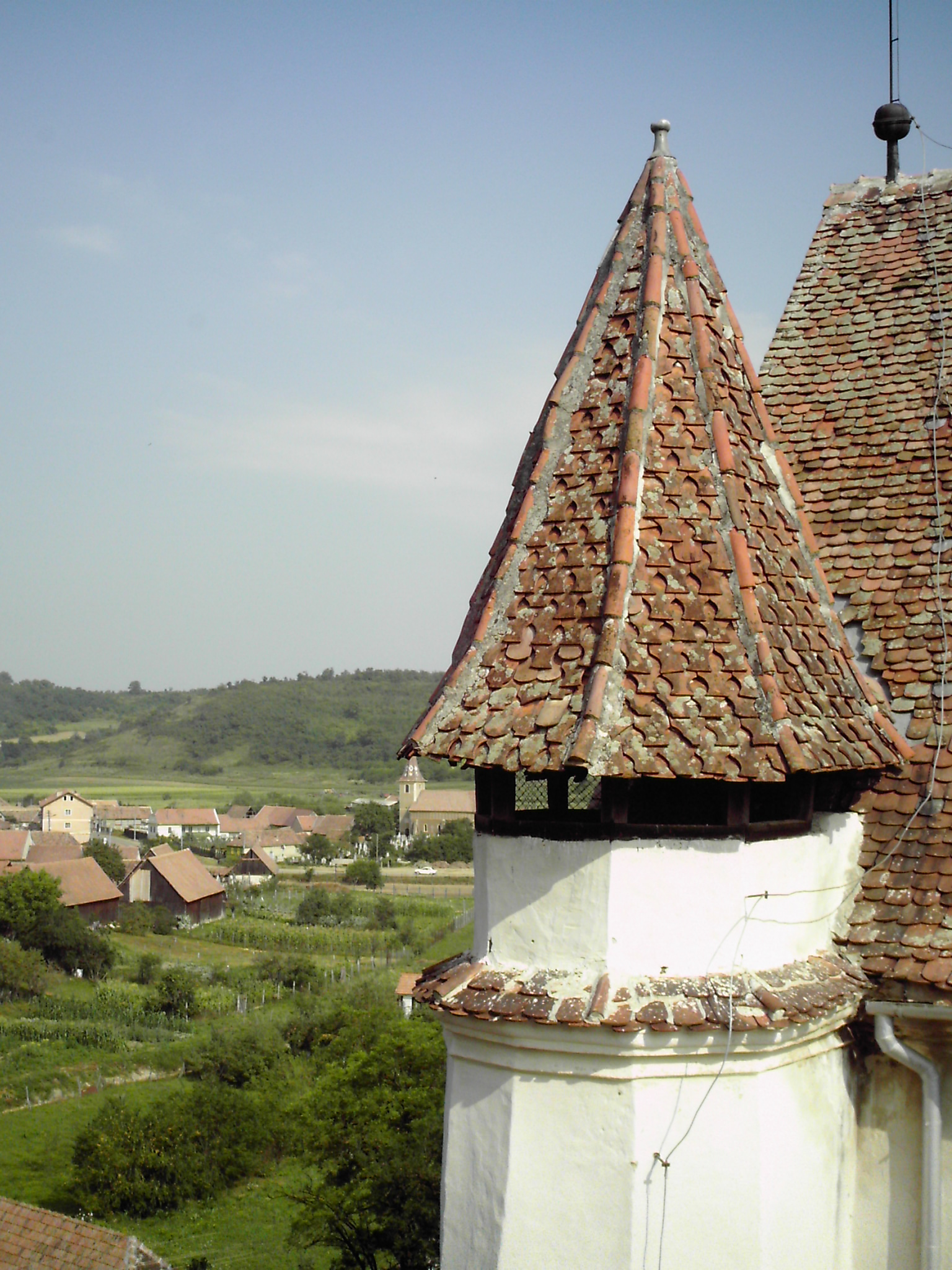 View of the bartizan of the fortified church in Bazna; photo taken from the gate tower.